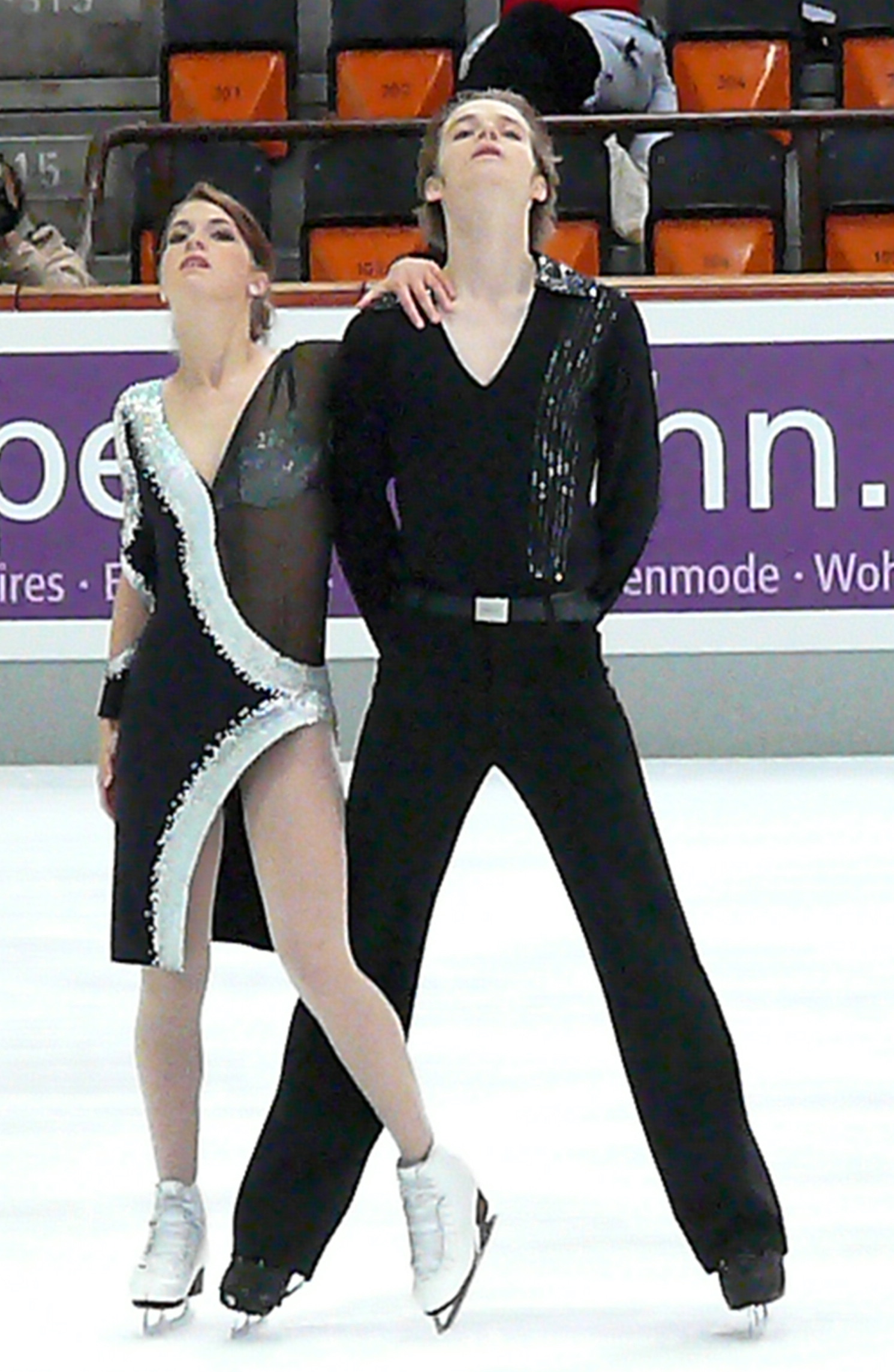 Carolina Hermann and Daniel Hermann (GER) at the free dance at the Nebelhorn Trophy 2007 in Oberstdorf/Germany